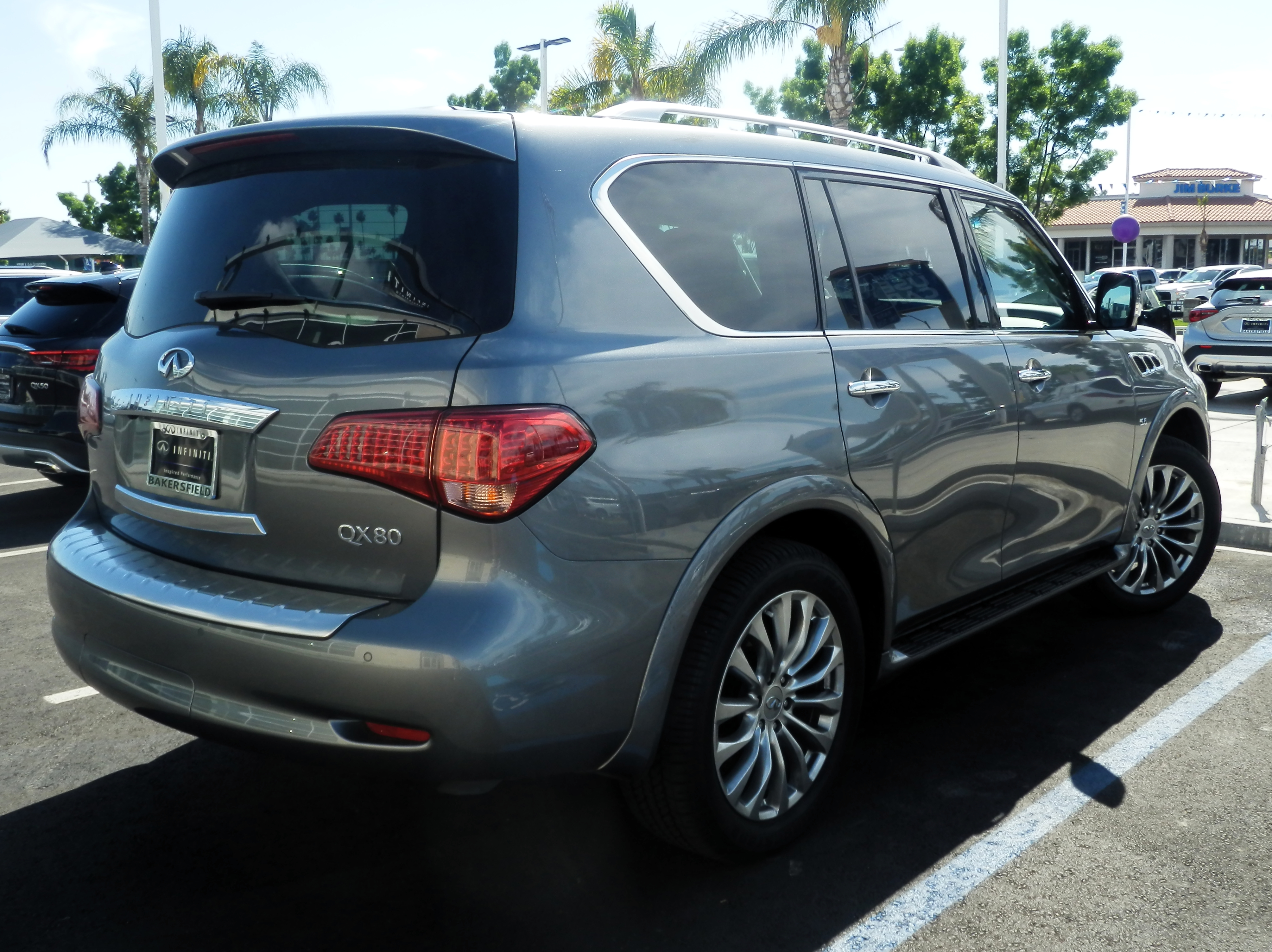 Infiniti QX80 in Bakersfield